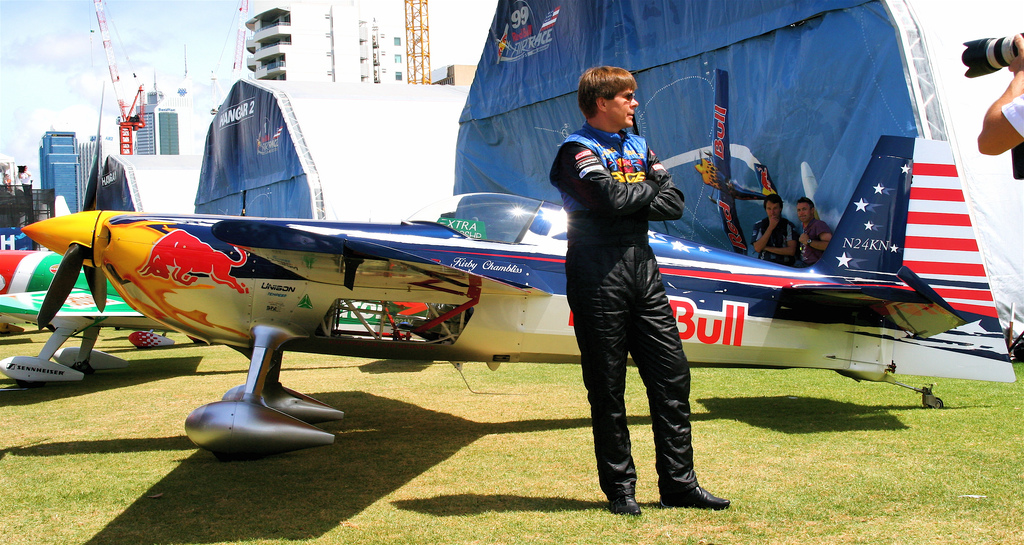 Kirby Chambliss at Langley Park in Perth before the 2006 Red Bull Air Race World Series. Original location. Image by rich115 and released under the Creative Commons Attribution 2.0 licence.